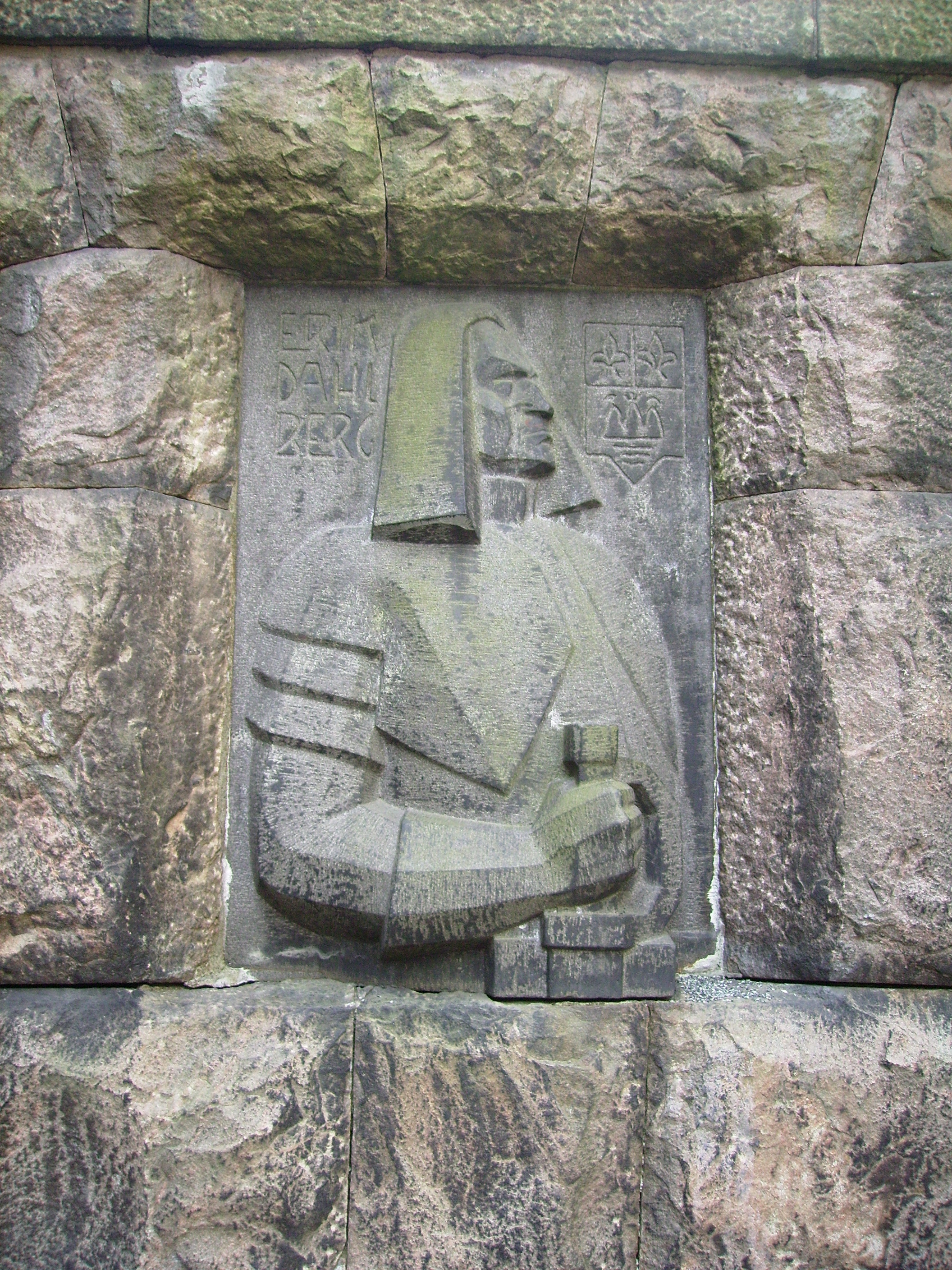 Picture of monument of Erik Dahlbergh in Göteborg